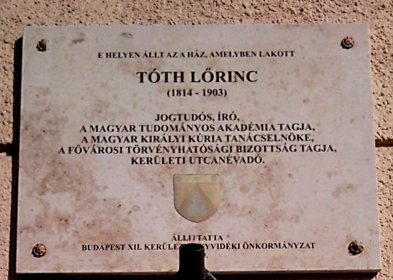 Commemorative plaque of Lőrinc Tóth, Budapest District XII, Városmajor Street No 57